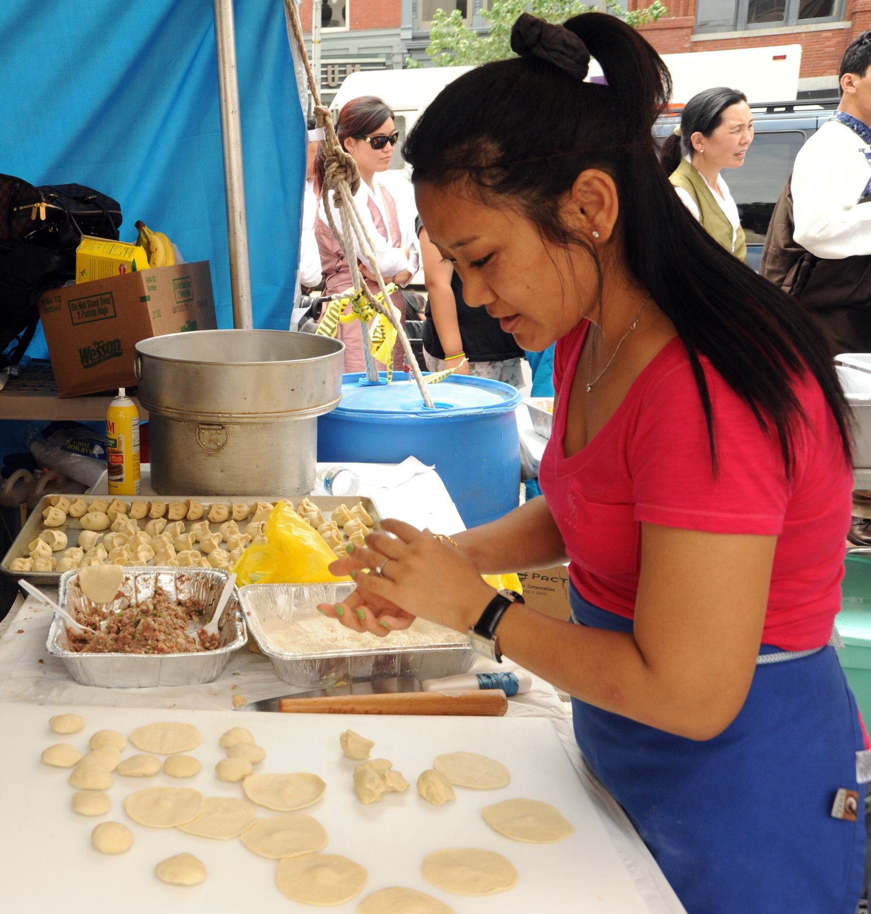 Original caption: Tibetan woman making mo-mos pastry - dough and filling, wearing her hair back in a ponytail, cooking at the white tent market, Kalachakra for World Peace, near Verizon Center, Washington D.C., USA